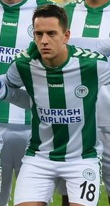 Konyaspor 2016-17 Squad